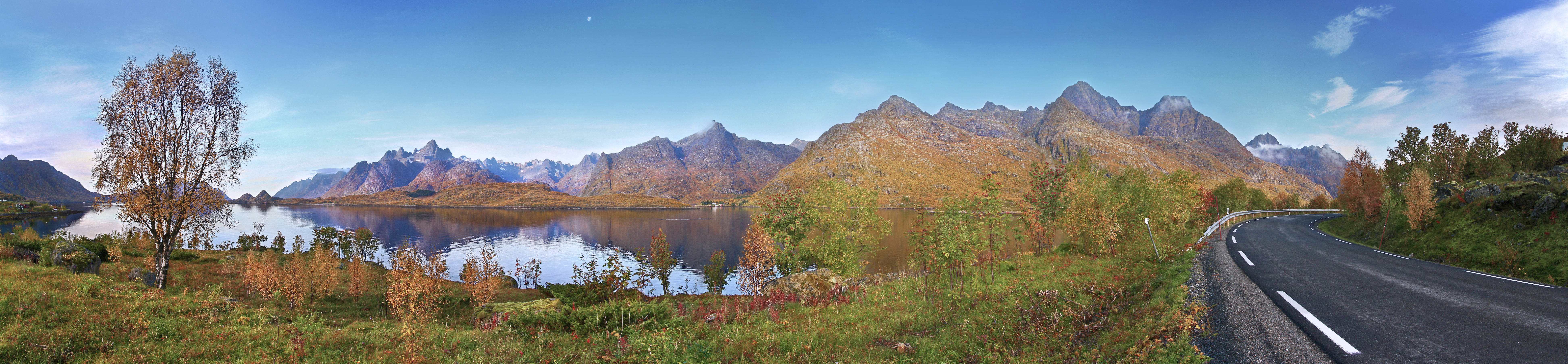 A view to Raftsundet and mountains such as Trolltindan from Hinnøya (Lofoten) in September 2010.